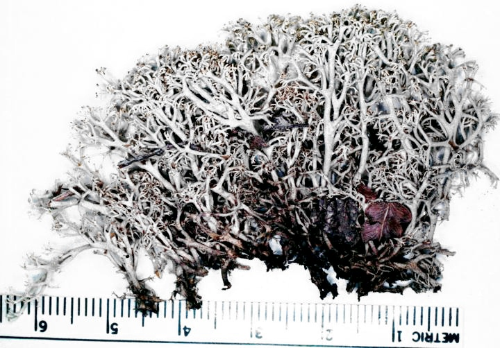 Cladonia mitis Sandst., 1918 (photograph of a herbarium specimen) Growing on soil in open area of woods in mats with Cladonia rangiferina & C. arbuscula, 2.2 miles W from the U. M. Biological Station, Cheboygan County, Michigan, USA; collected and identified by Richard E. Riefner (No. 81-225, 23 Jun 1981); specimen is now in the Lichen Herbarium of the New York Botanical Garden. (millimeter scale)